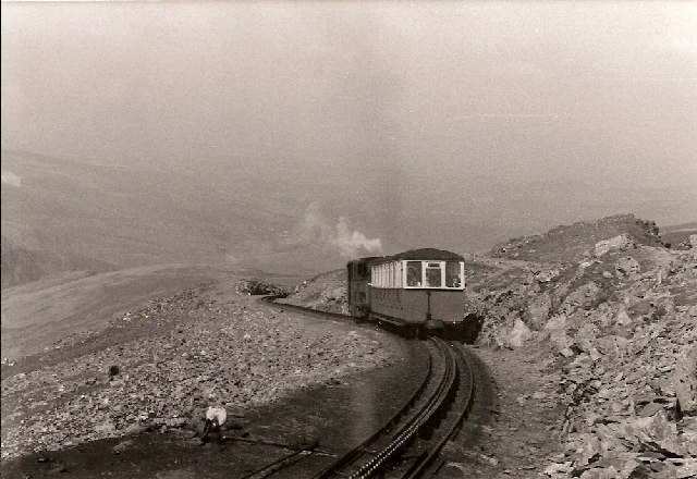 Snowdon Train